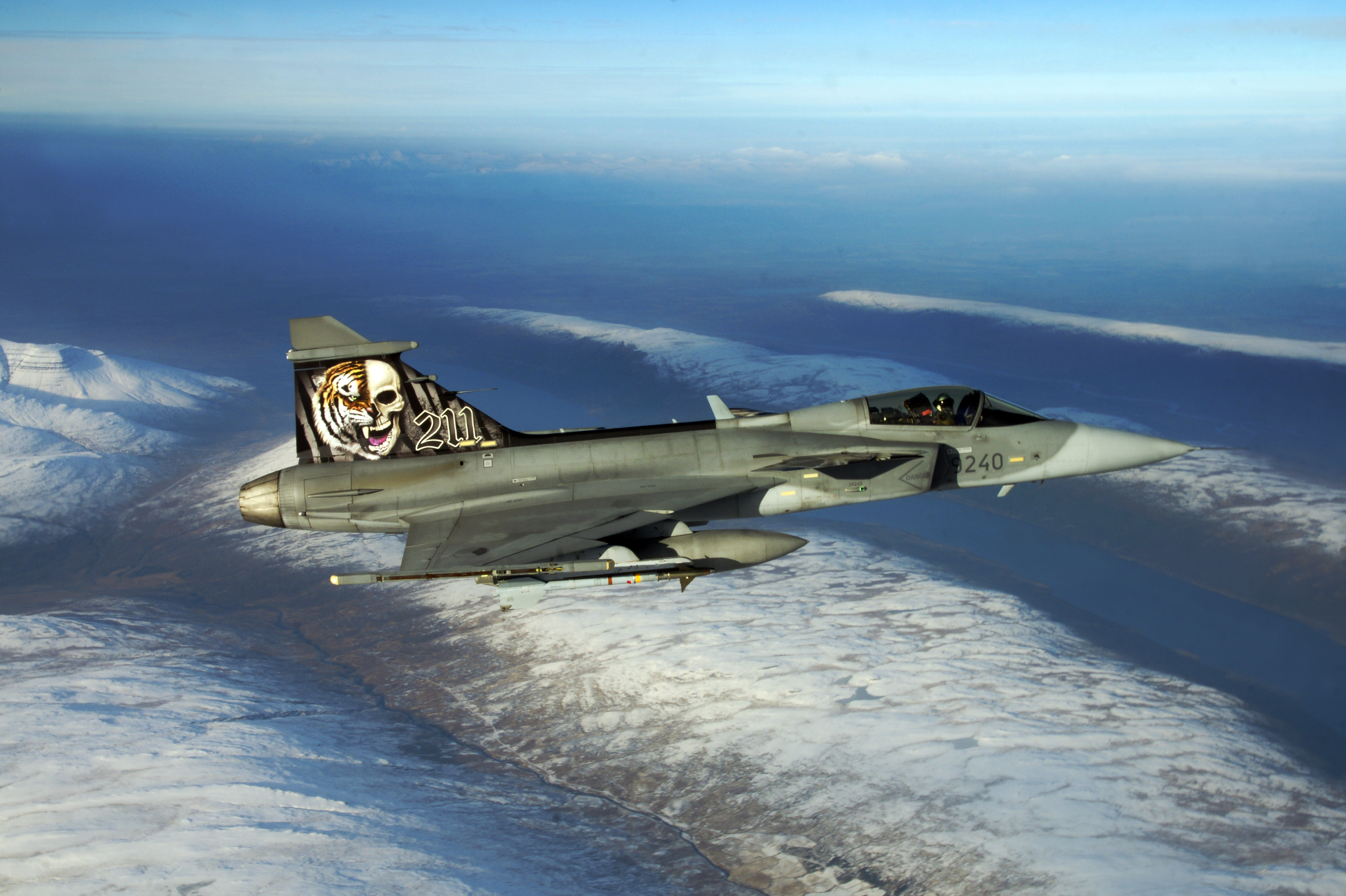 Czech Saab Gripen inflight over Iceland